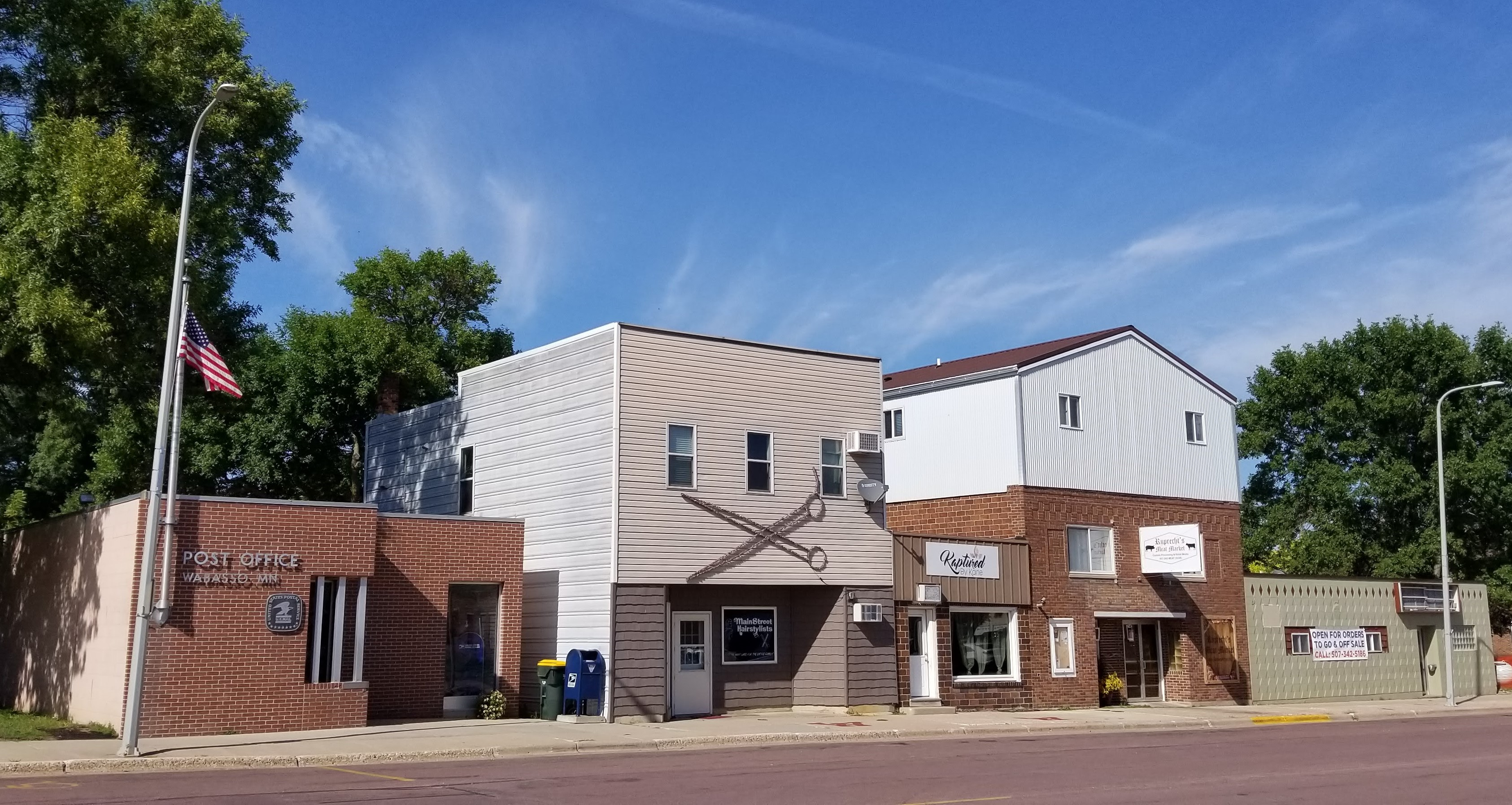 Buildings on Main Street in Wabasso, Minnesota, including the Wabasso post office, a hairstylist, and a meat market